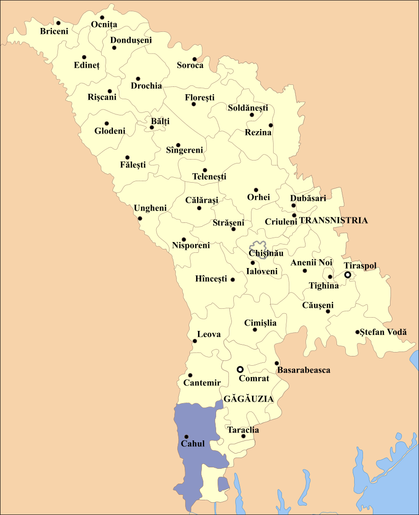 Map of Kagul raion, Republic of Moldova